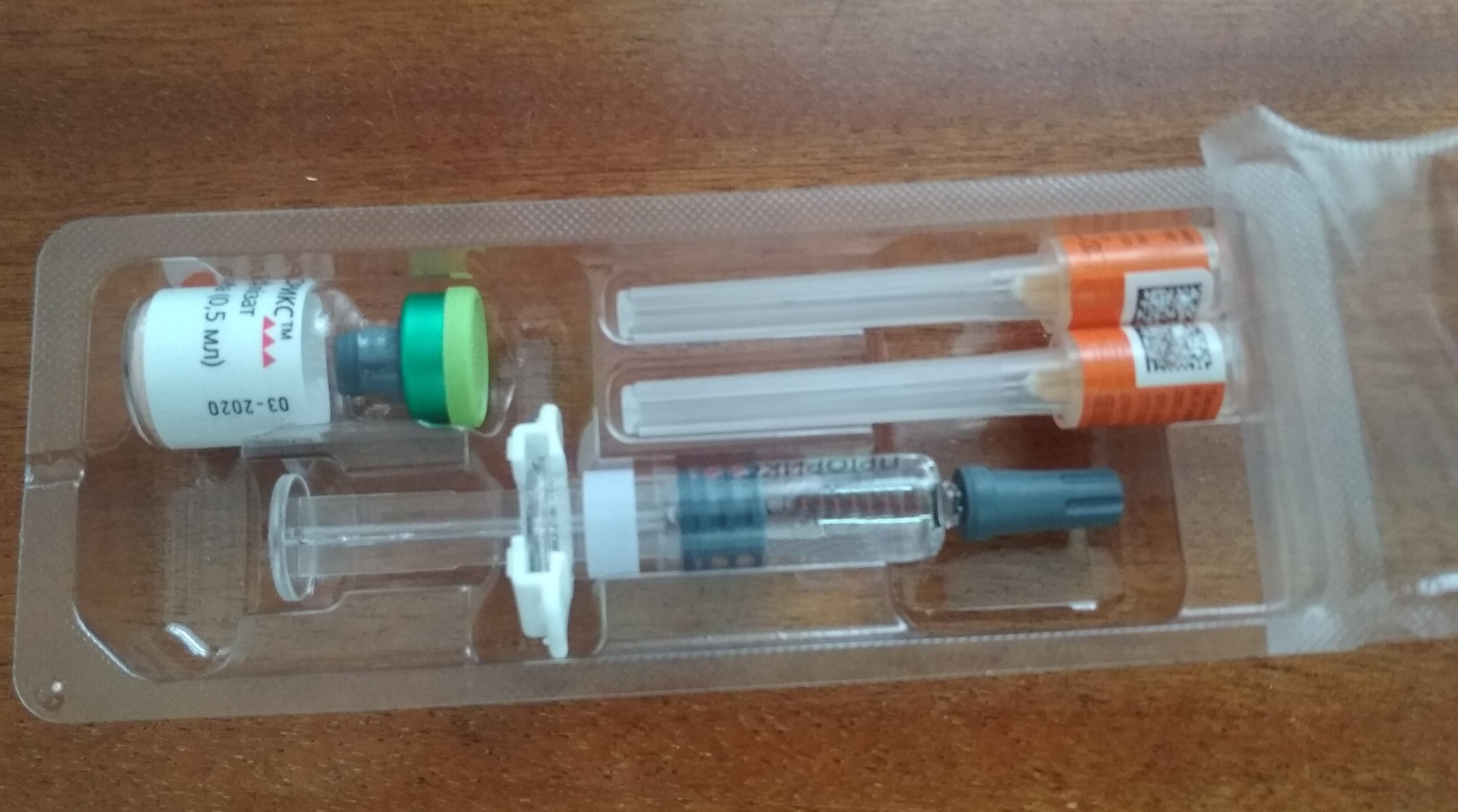 Commercial vaccine for the prevention of measles, epidemic mumps and rubella. The bottle with the green cap at upper left contains a freeze-dried preparation of attenuated viruses. At the upper right are two hypodermic needles with protective caps. At bottom is a pre-filled solvent syringe.